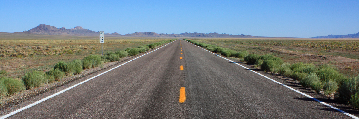 State Route 375 (the Extraterrestrial Highway) in Railroad Valley, Nevada, USA